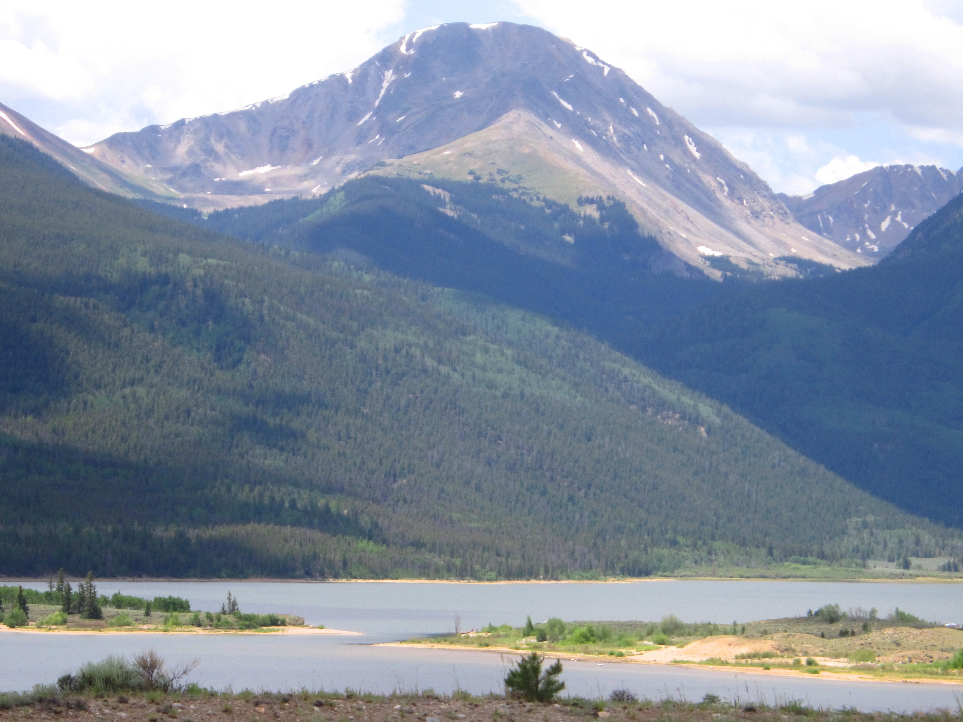 Mount Hope and Twin Lakes CO